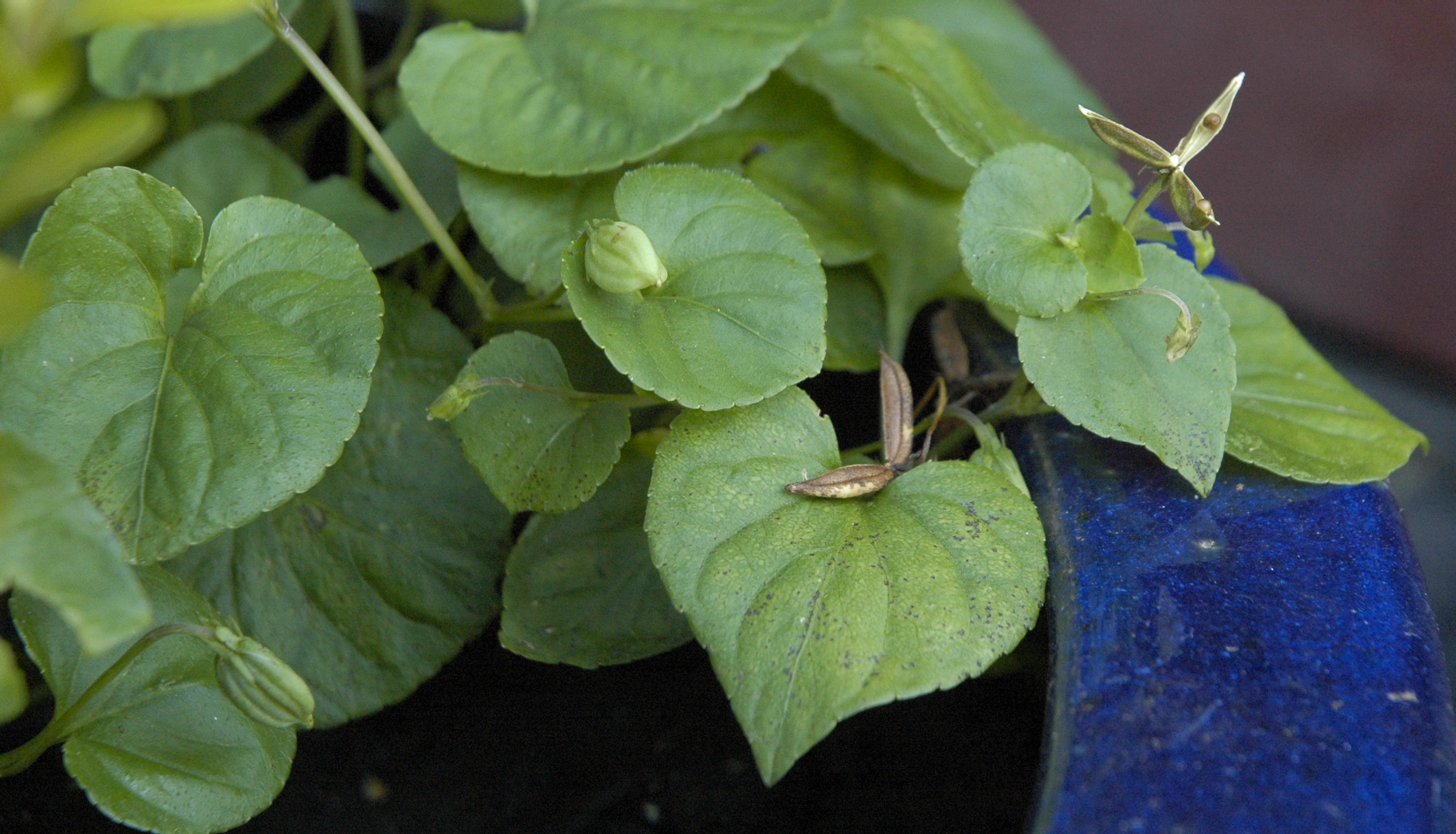 Seed pods of Viola riviniana. These are closed and self-pollinated. Open pod in the upper right corner, closed pods in the middle and bottom left.